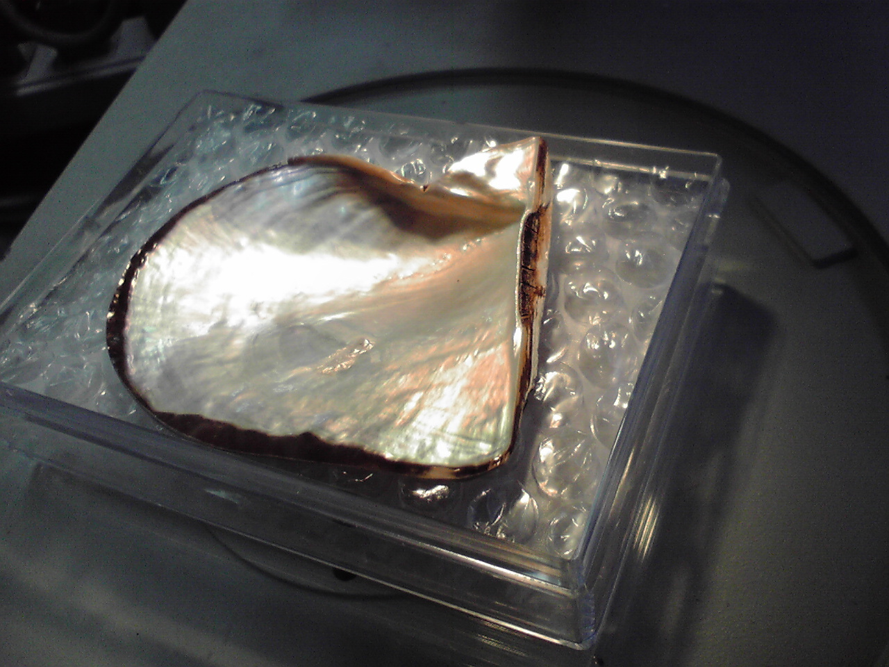 This is a pearl oyster cultivated in Shima City ,Mie Prefecture ,Japan. University of Tsukuba is owning it.